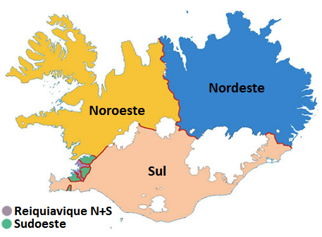 The map is based on one from the website of the Land Survey of Iceland where it is stated that it may be used for any purposes without a special permission.